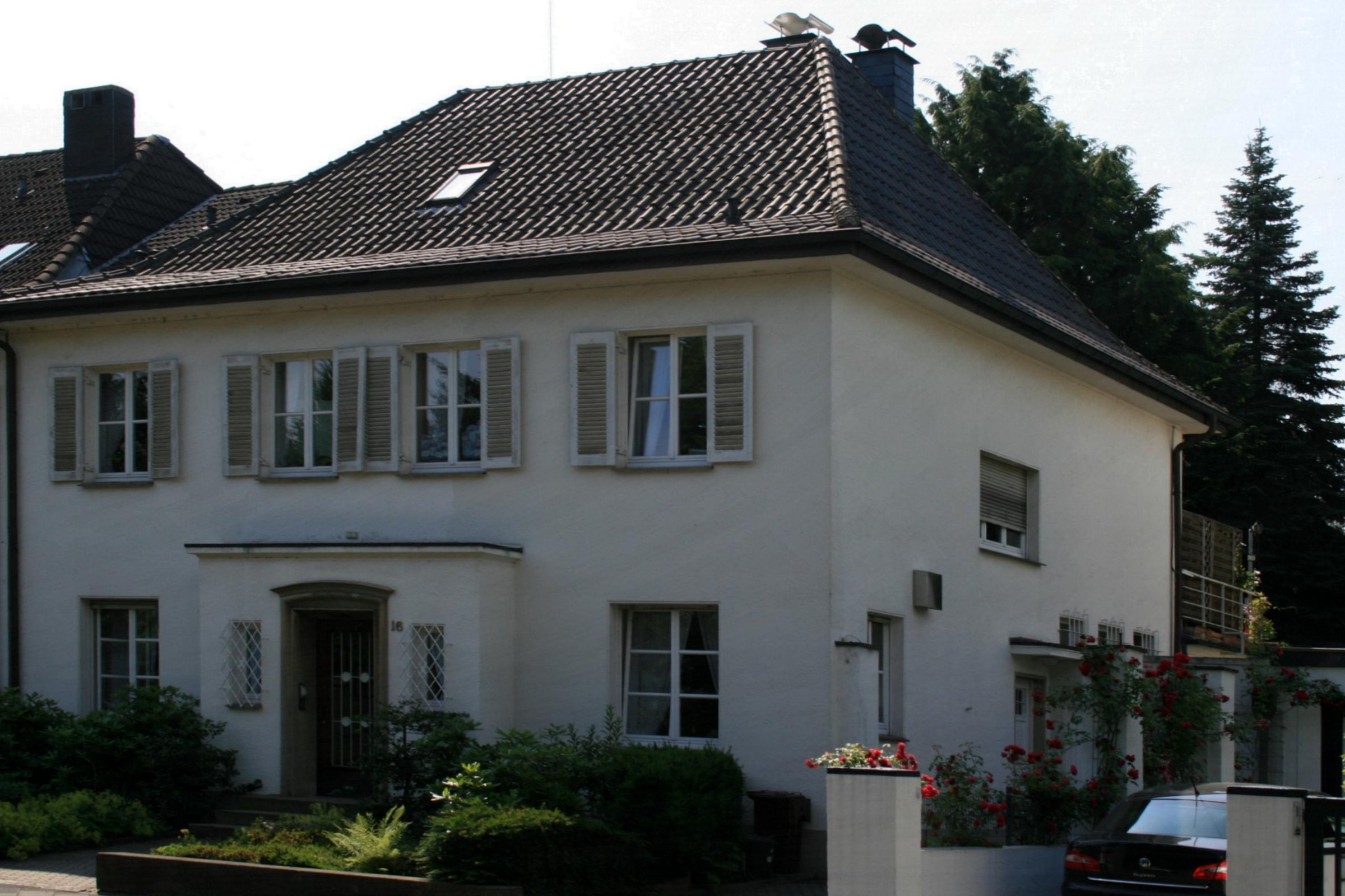 Cultural heritage monument No. St 011 in Mönchengladbach